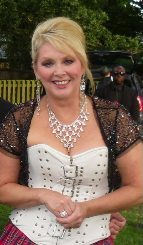 Photo of Cheryl Baker, singer formerly of the group Bucks Fizz